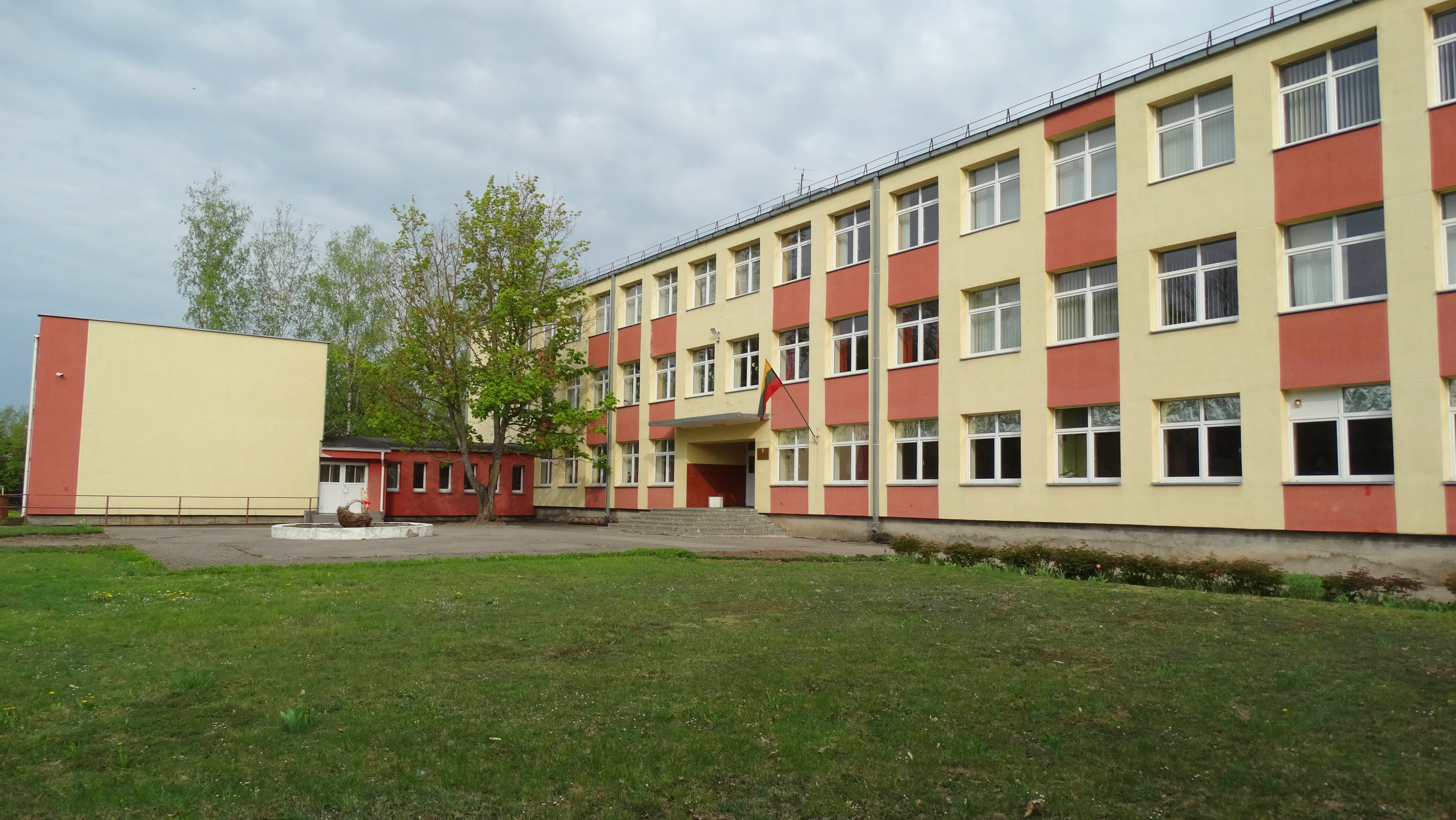 Rozalimas, basic school , Pakruojis District, Lithuania